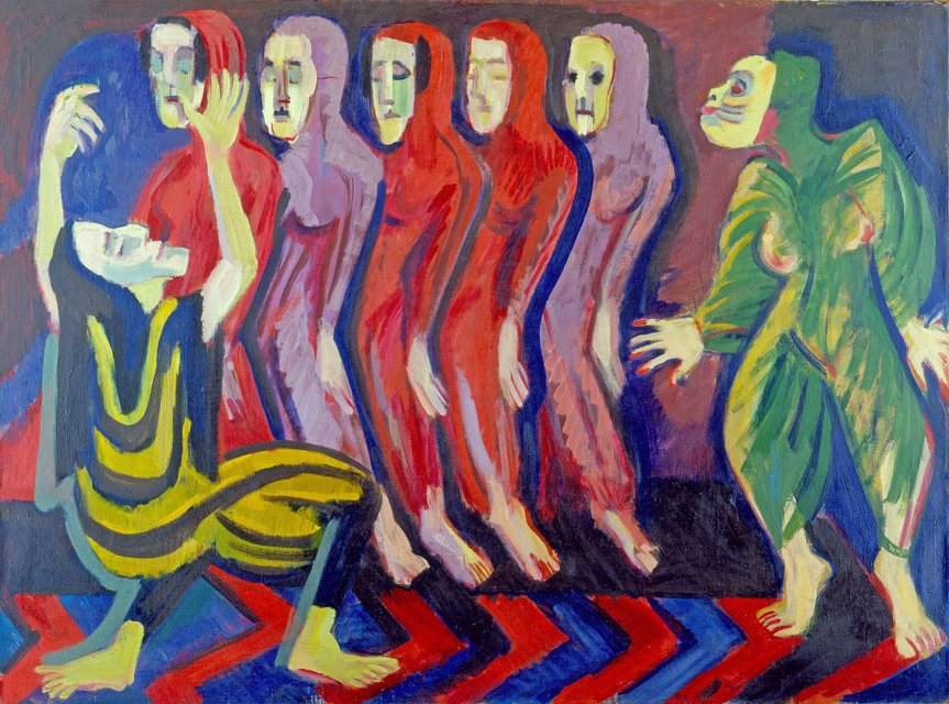 Totentanz der Mary Wigman, painting by Ernst Ludwig Kirchner, 1926-8